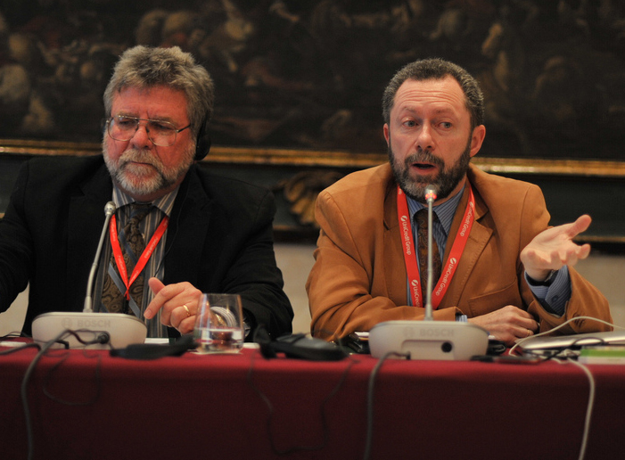 Stephen K. Doig and José Luis dader